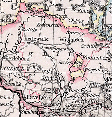 Detail from a map of Brandenburg.